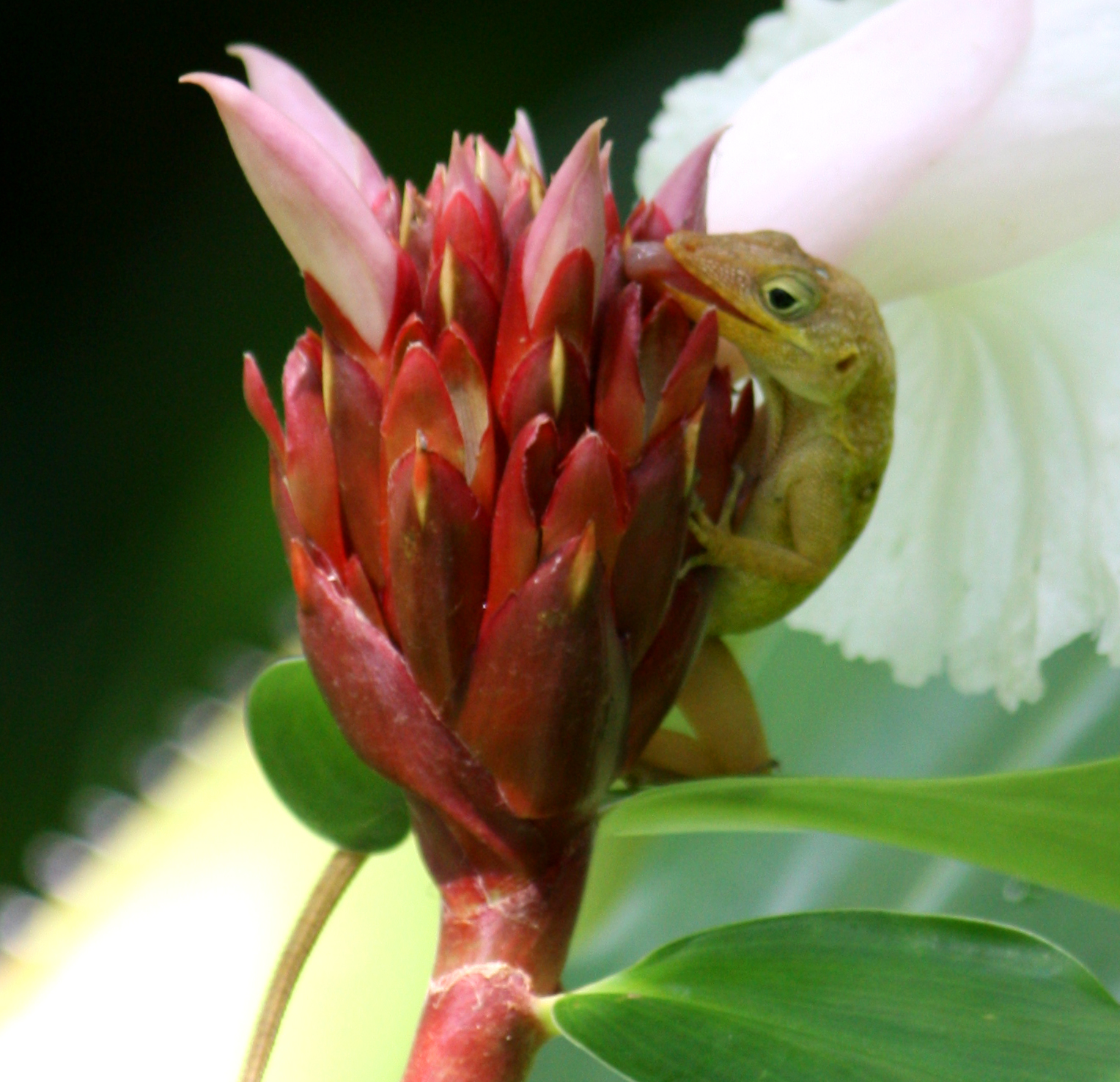 Male Dominican Anole (Anolis oculatus) licking a flower. South Caribbean ecotype (A. o. oculatus). Dominica Botanical Gardens, Roseau, Dominica.